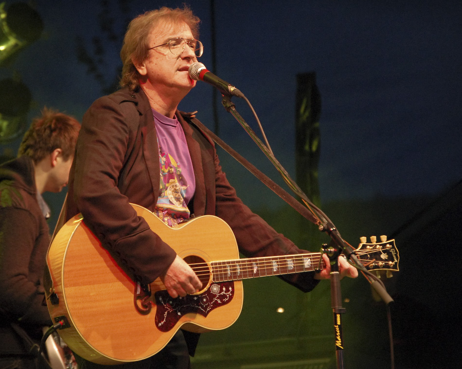 Miroslav Zbirka in concert in Brno